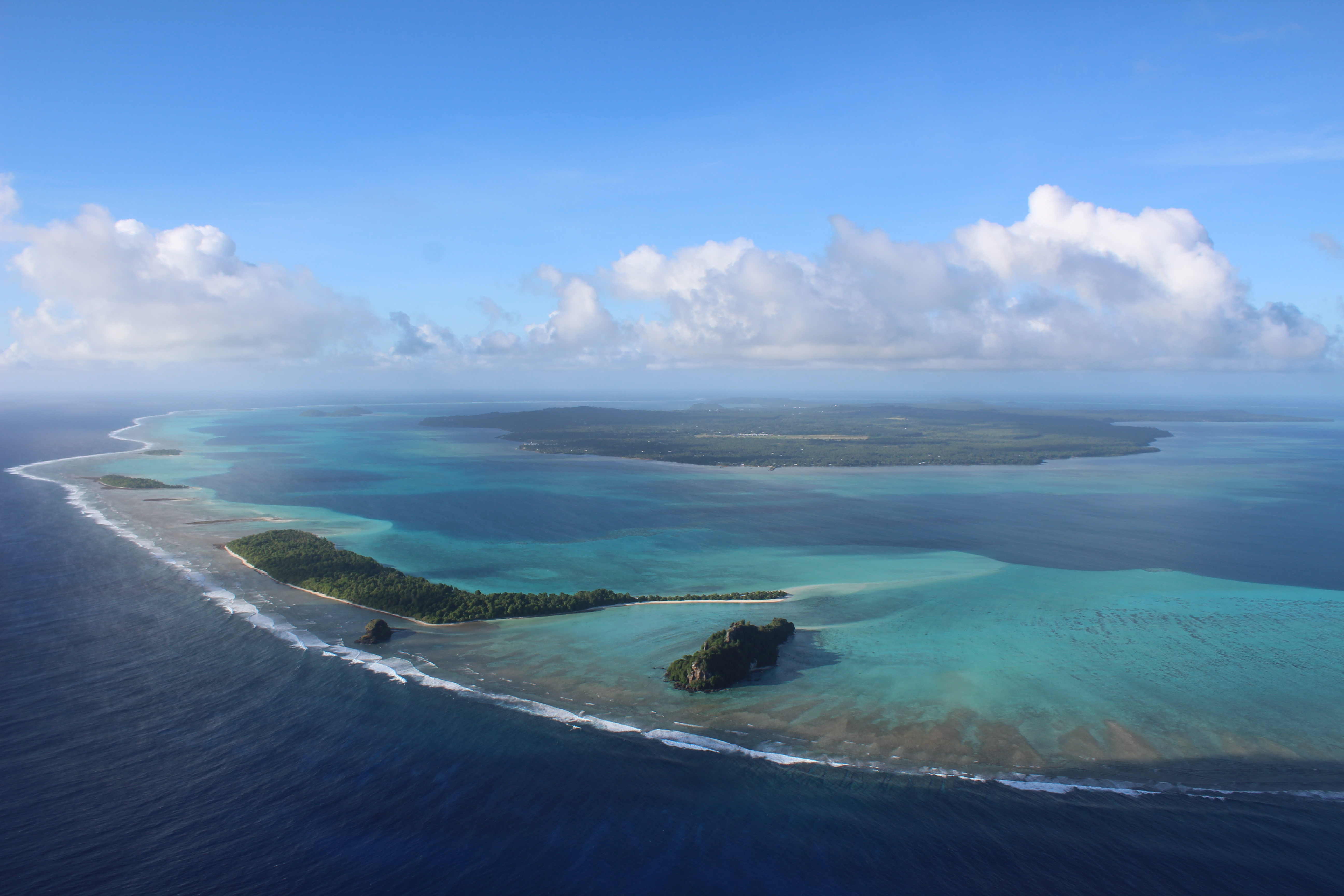 Aerial photograph of Wallis island (South Pacific). The North of the lagoon and the coral reef is visible with the islets Nukufotu, Nukula'ela'e (very small), Nukuloa then Nukuteatea and finally Nukutapu. The mainland (Wallis island) is visible in the background.